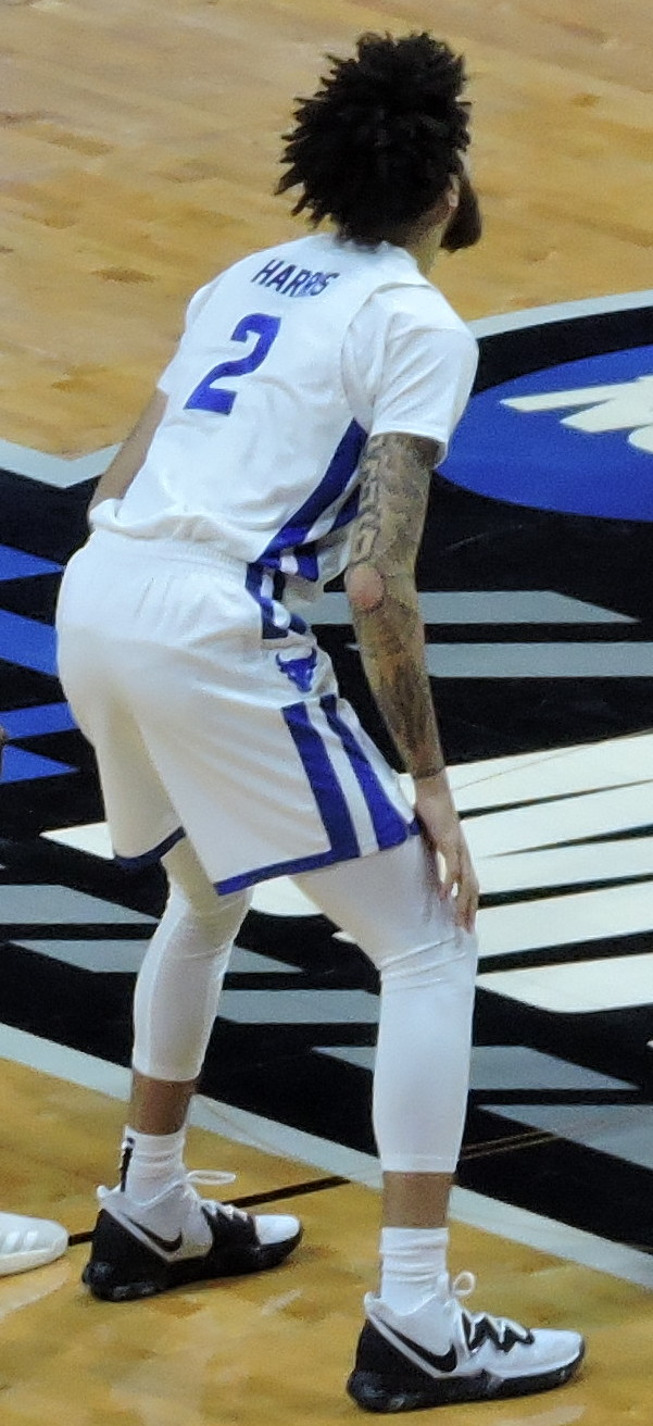 The Arizona State Sun Devils and the Buffalo Bull jump center to start the second game of the 2019 NCAA Men's Basketball Tournament at the BOK Center in Tulsa, Oklahoma.